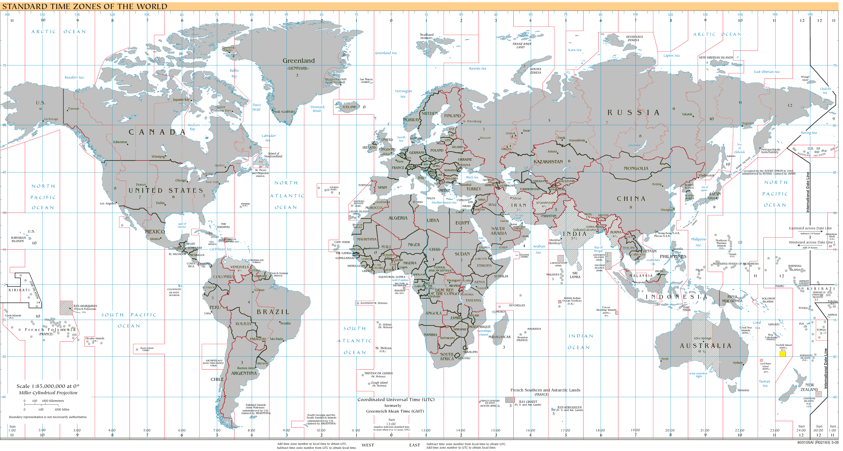 World map of time zones as of June 2008. Highlighting UTC+11:30 Yellow: UTC+11:30 All year round